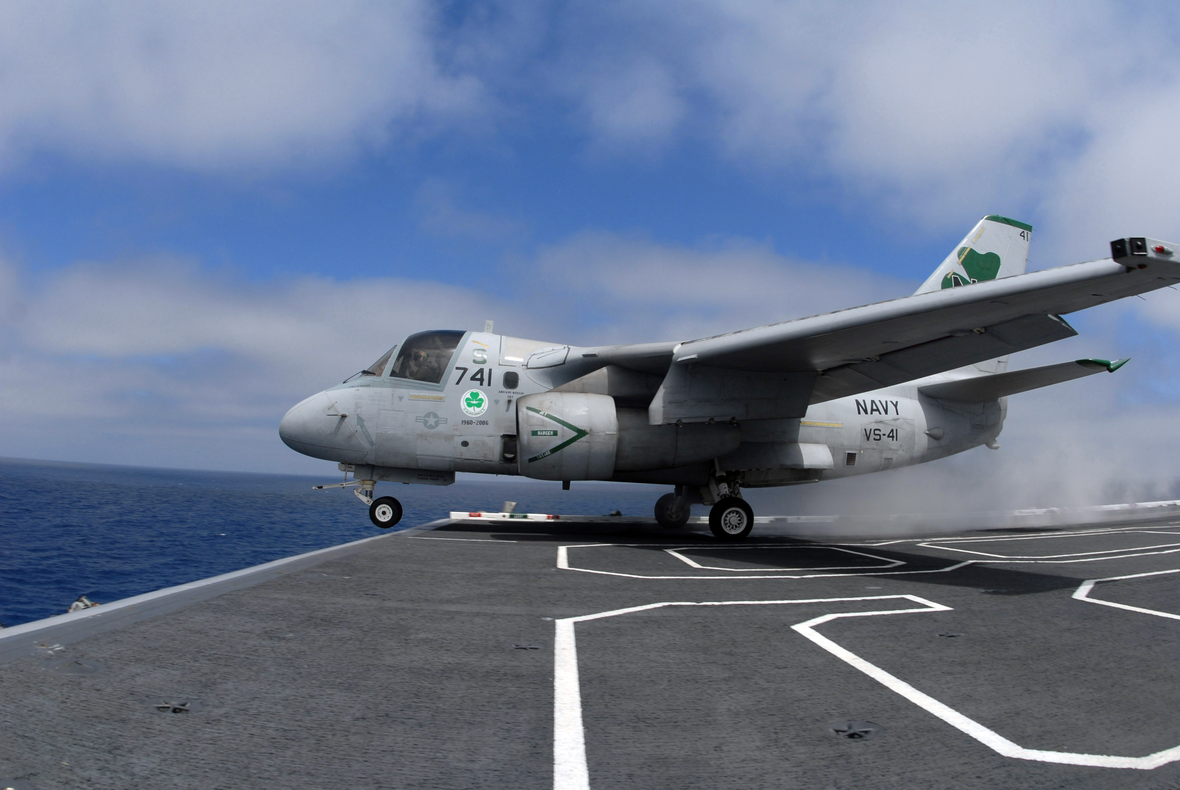 An S-3B Viking assigned to the “Shamrocks” of Sea Control Squadron 41 (VS-41) launches from the flight deck aboard the nuclear-powered aircraft carrier USS Nimitz (CVN 68). The S-3B Viking is an all weather, carrier-based jet aircraft, providing protection against hostile surface combatants while also functioning as the Carrier Battle Groups’ primary overhead/mission tanker. The F/A-18E/F Super Hornet is gradually replacing the Viking, with squadrons being disestablished as Super Hornet aircraft join the respective Air Wings. The Nimitz is currently underway off the coast of Southern California conducting sea trials after successfully completing a six-month Planned Incremental Availability (PIA) period.